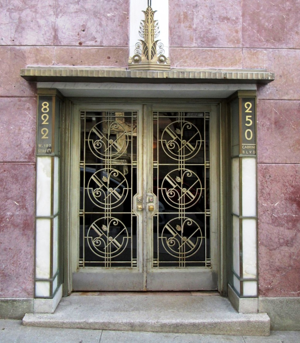 250 Cabrini Boulevard, also known as 822 West 187th Street, in the Hudson Heights neighborhood of Washington Heights, Manhattan, New York City was built in 1936. (Source: NYC GIS map)